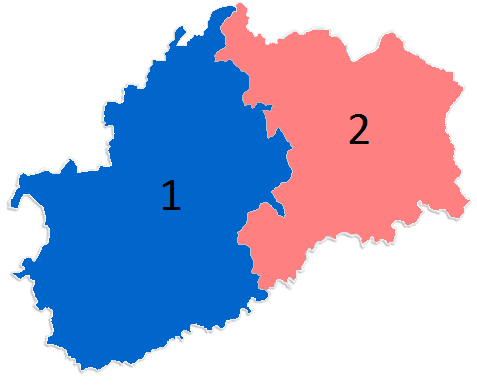 French legislative election in Haute-Saône, 2012